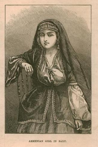 from July 19, 1873 The Illustrated London News